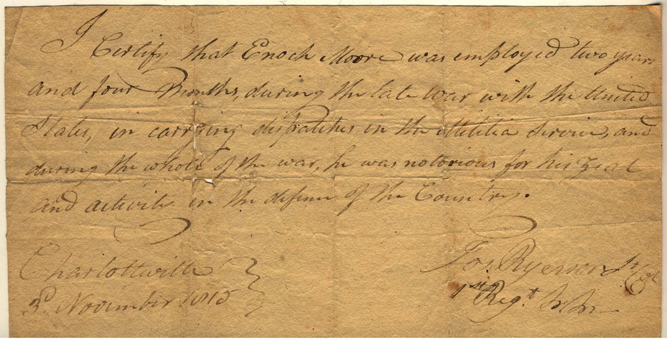 "I Certify that Enoch Moore was employed two years and four months during the late war with the United States, in carrying dispatches in the Militia Services, and during the whole of the war, he was notorious for his zeal and activities in the defense of the country. Charlotteville 3 November 1815 Jos. Ryerson, Col. 1st Regt. "